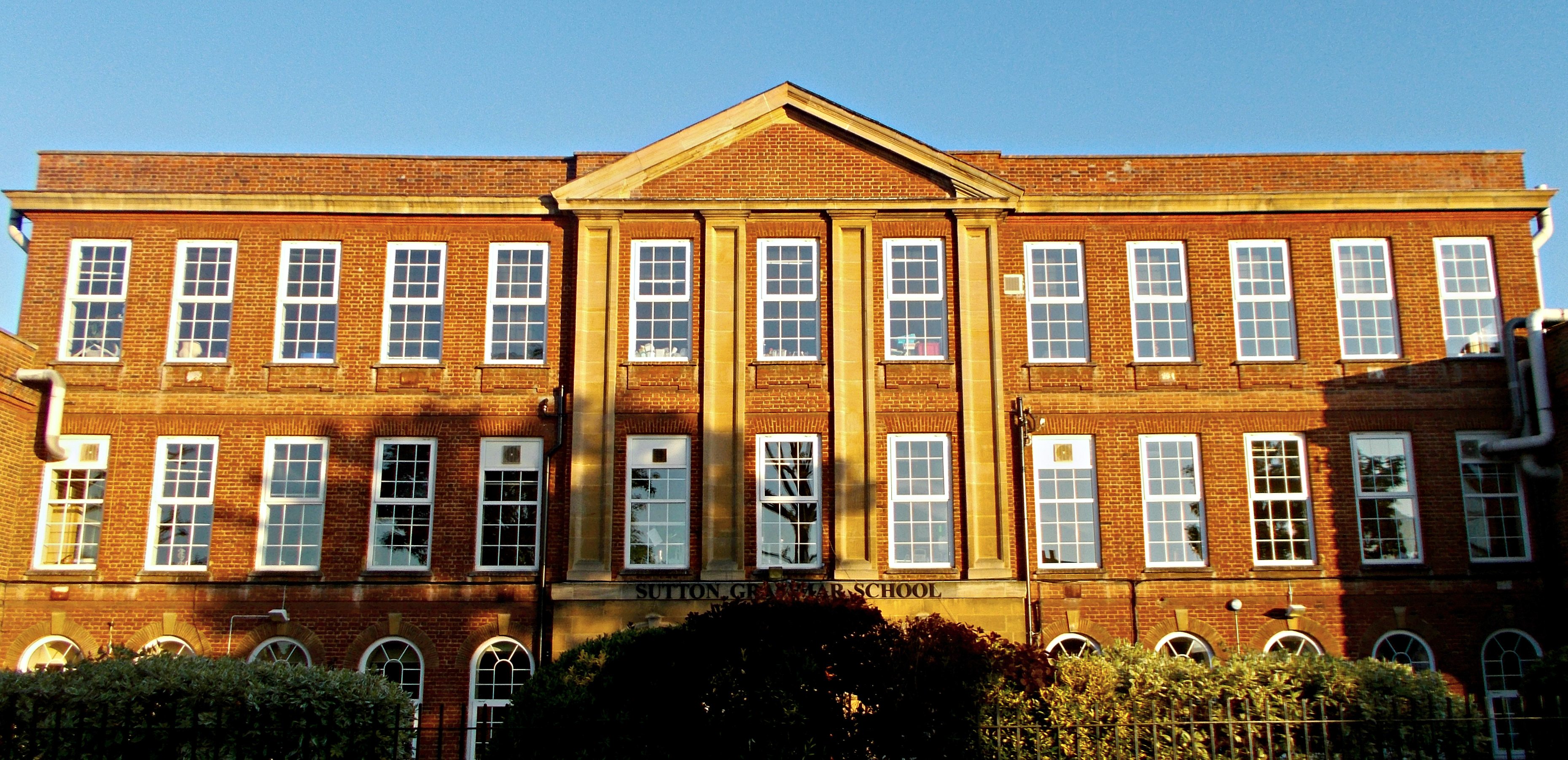 Sutton Grammar School, SUTTON, Surrey, Greater London